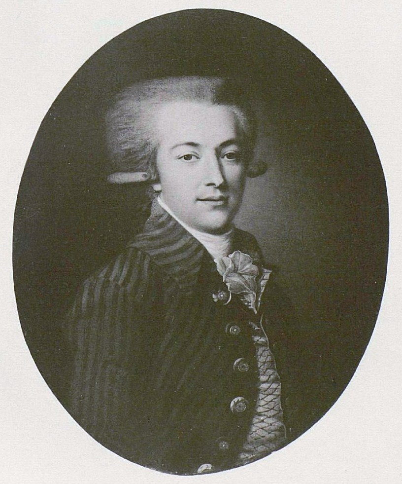 Mikhail Ivanovich Dashkov (1736-1764)